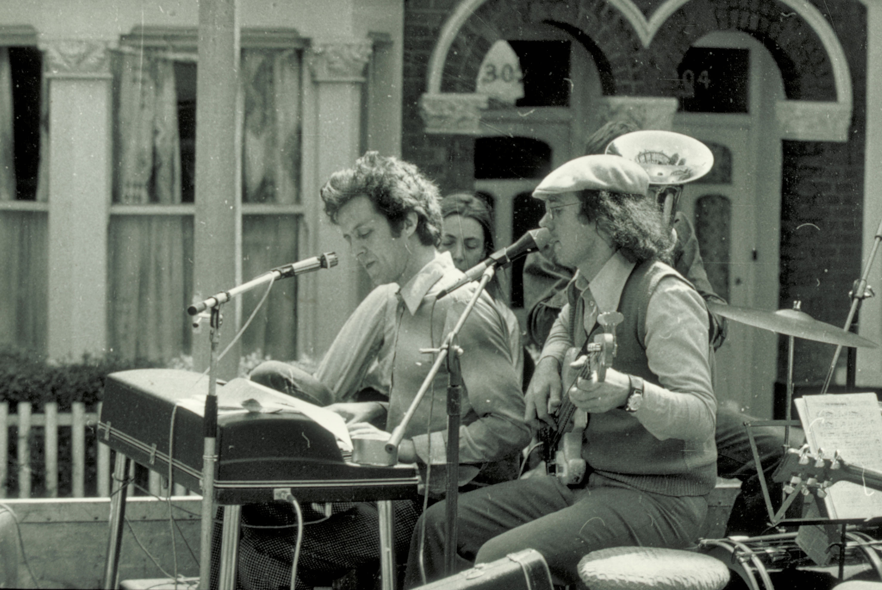 Cornelius Cardew and Laurie Scott Baker in PLM supporting the Grunwick march.